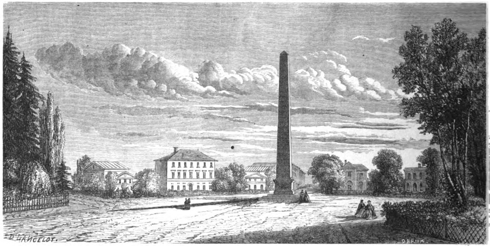 The obelisk in Munich.